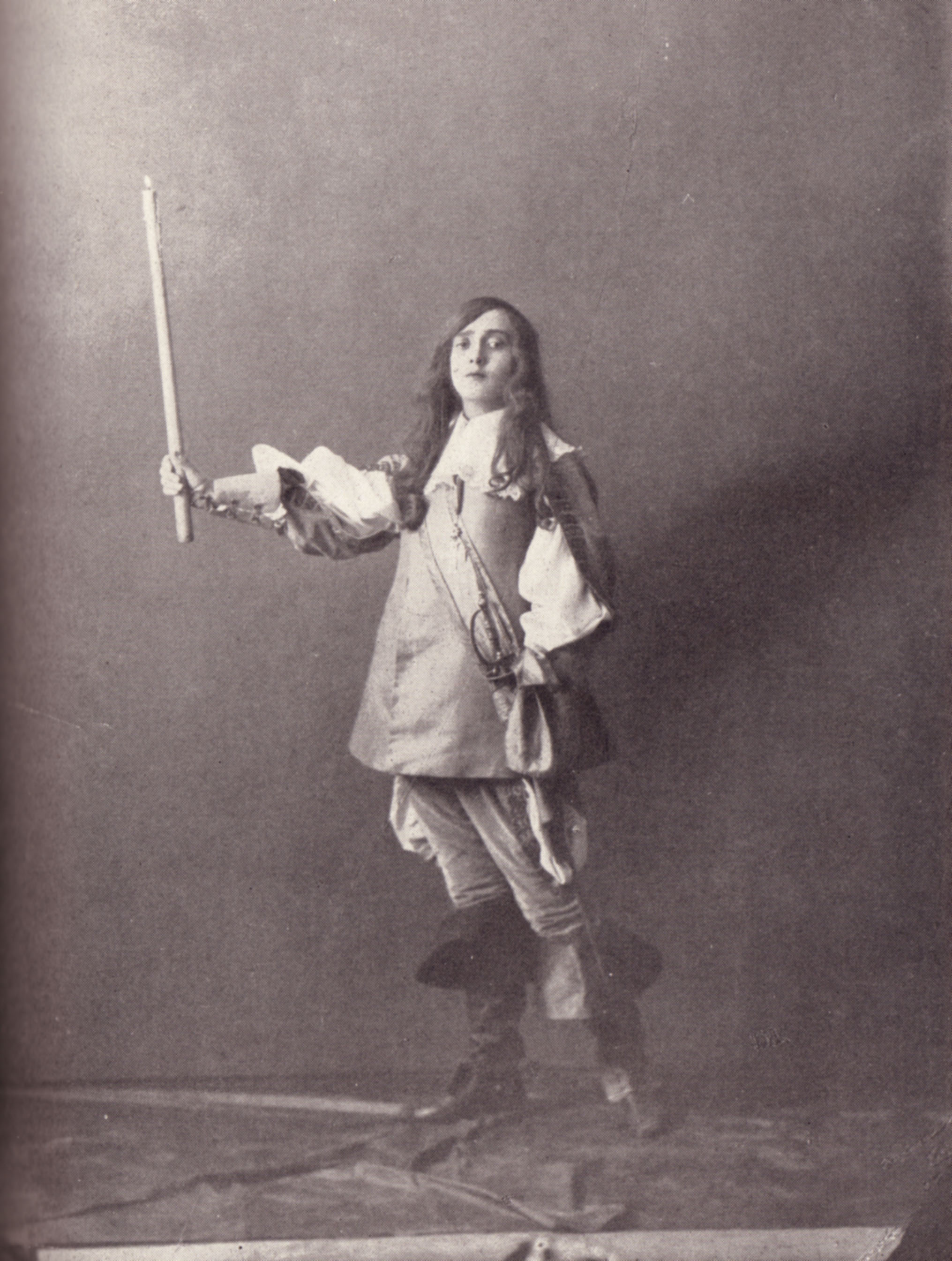 Nina Grigoryevna Kovalenskaya as Prince Fernando (The Constant Prince by Pedro Calderón, production by Vsevolod Meyerhold). Petrograd, Aleksandrinsky theatre, 1915. Photo by an unknown author.